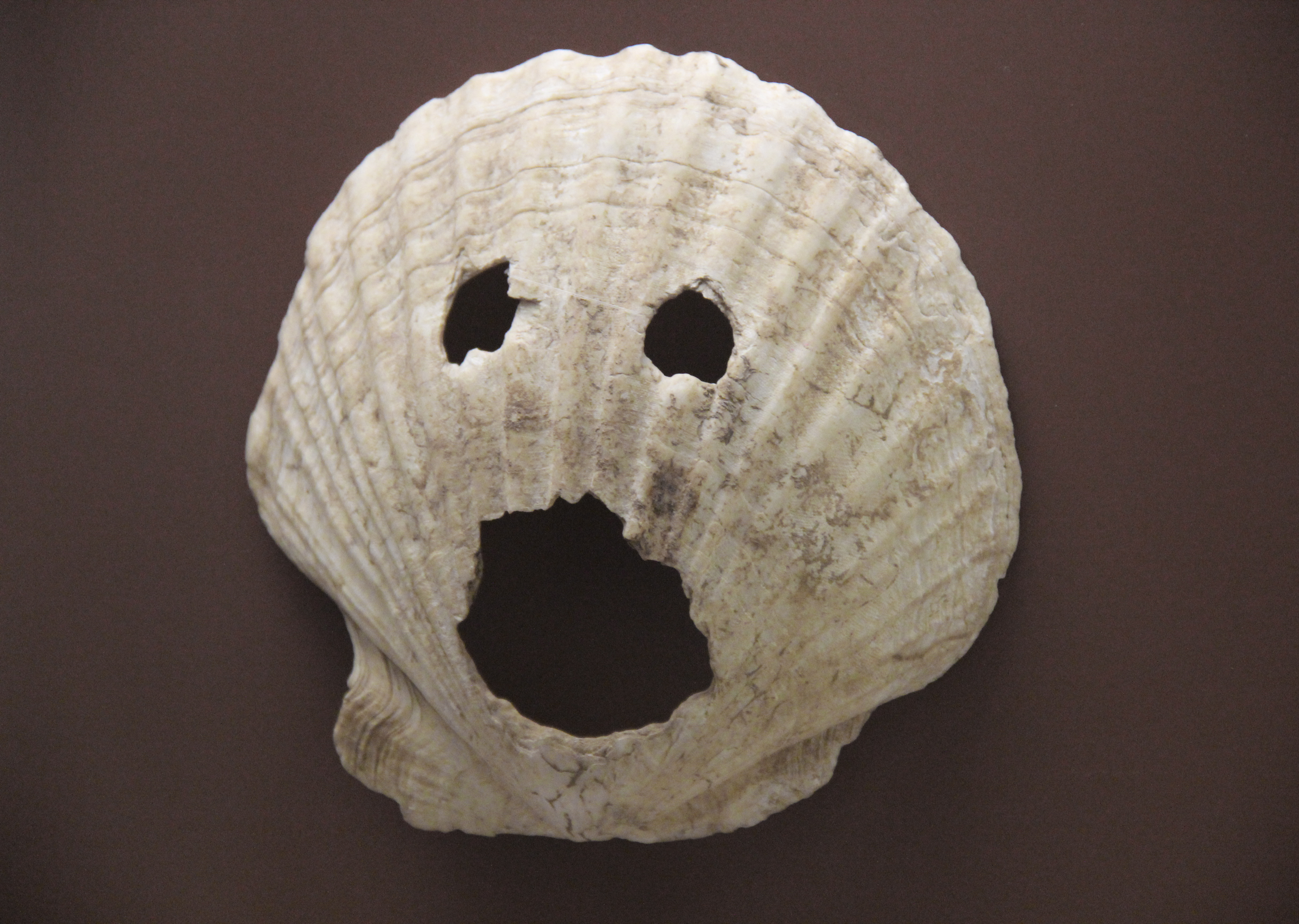 Tongsam-dong shell mask. L. 10.7 cm. Level 3 of Tongsam-dong (Neolithic shell midden site of a small island off Pusan) dated by Carbon14 around 5000 BCE. Accompanied, at this level of ancient Jomon pottery (Sobata type, Northeast Kyushu), hooks, projectile points, harpoons, and other bone tools (Kim Won Yong, 1983, p. 19). National Museum of Korea.